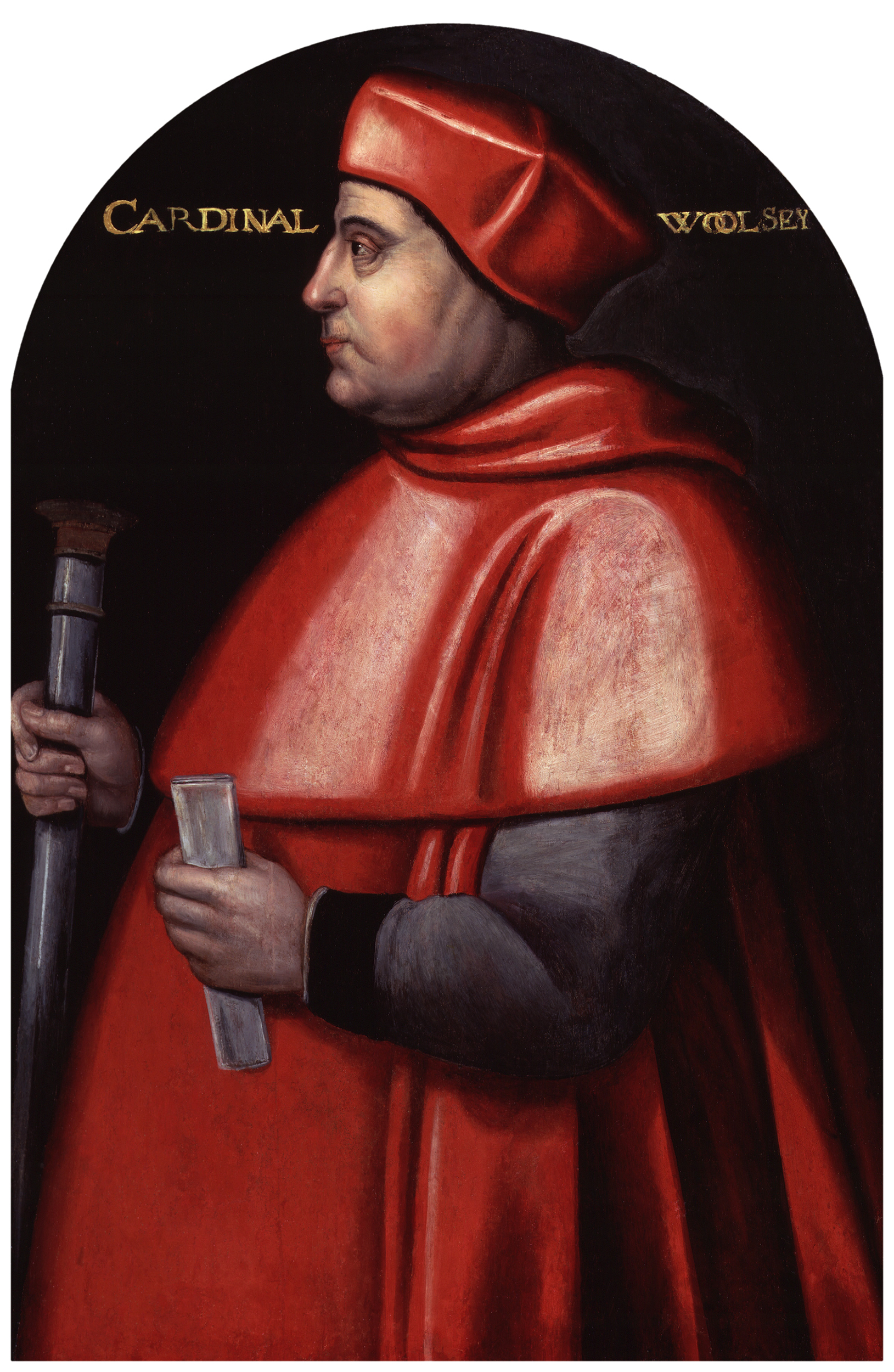 Thomas Wolsey (1473-1530), Lord High Chancellor of England (1515-1529), Archbishop of York (1514-1530), Prince-Bishop of Durham (1523-1529), Bishop of Winchester (15291-1530), Cardinal (1515), the King's chief adviser